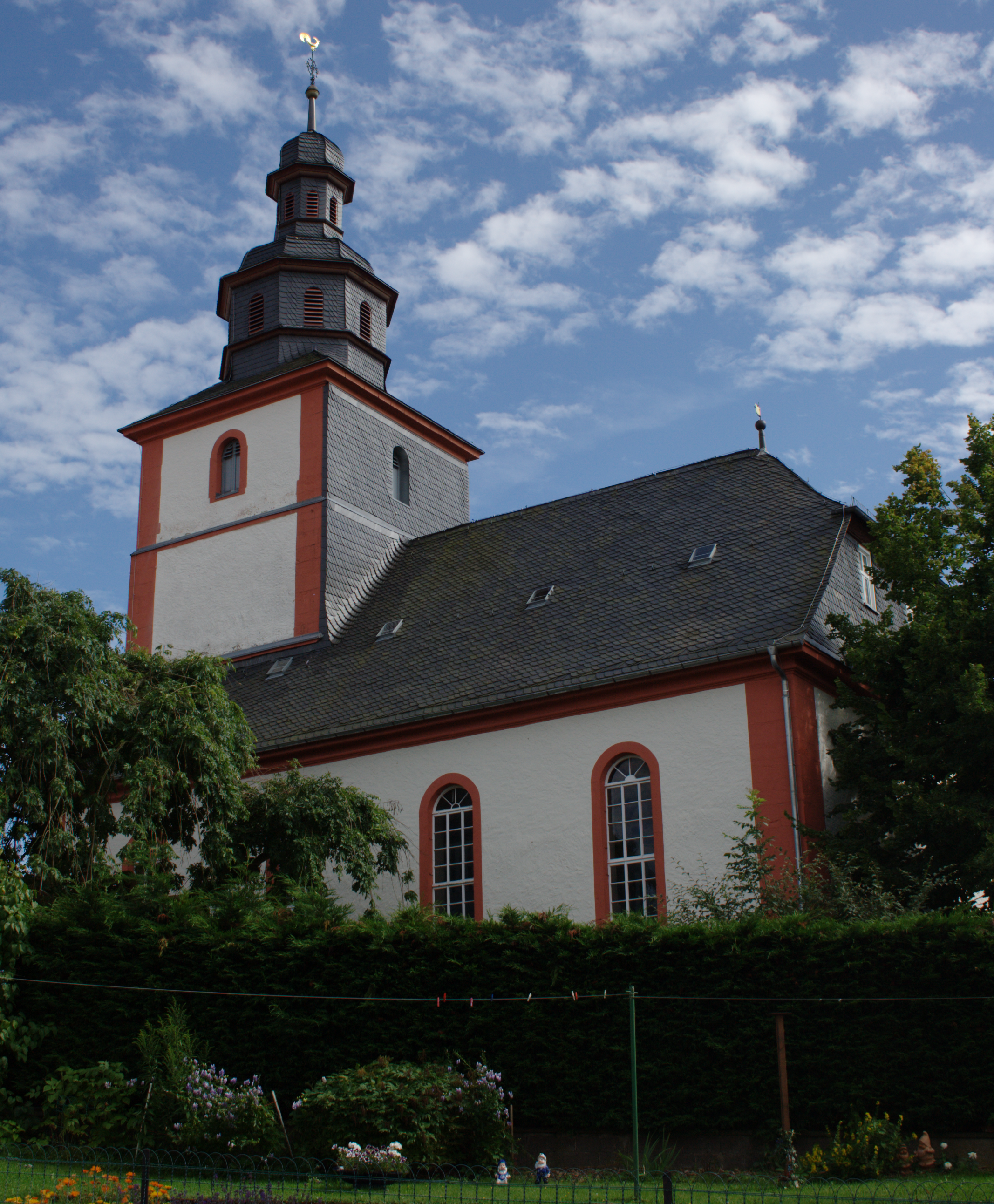 Church in Hopfmannsfeld / Lautertal / Vogelsberg / Hesse / Germany